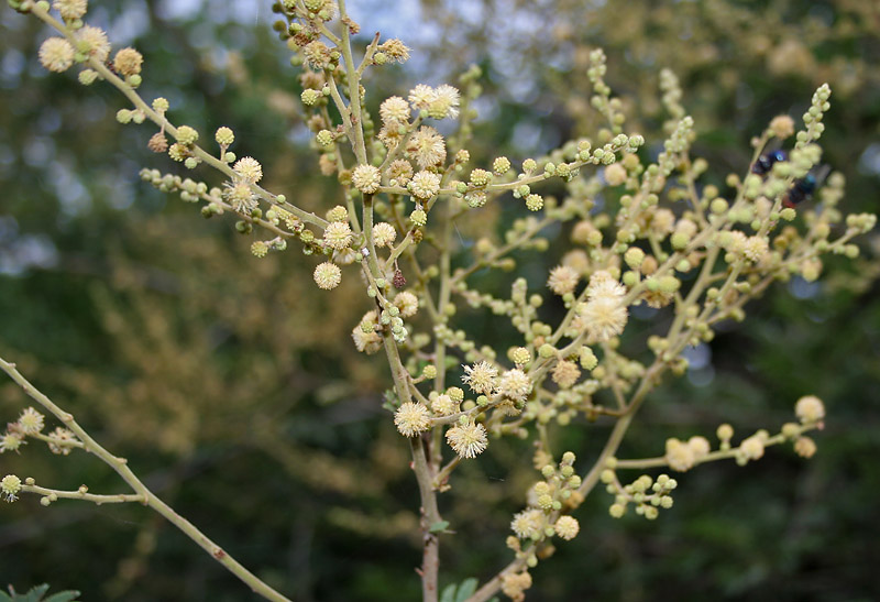 Ronjh, Safed Keekar, White-barked acacia or Nayibela Acacia leucophloea in Hyderabad , India.